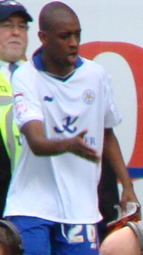 25/09/11 Cardiff V Leicester, Championship, Cardiff City Stadium, Cardiff, Wales [Image cropped from original at Flickr]